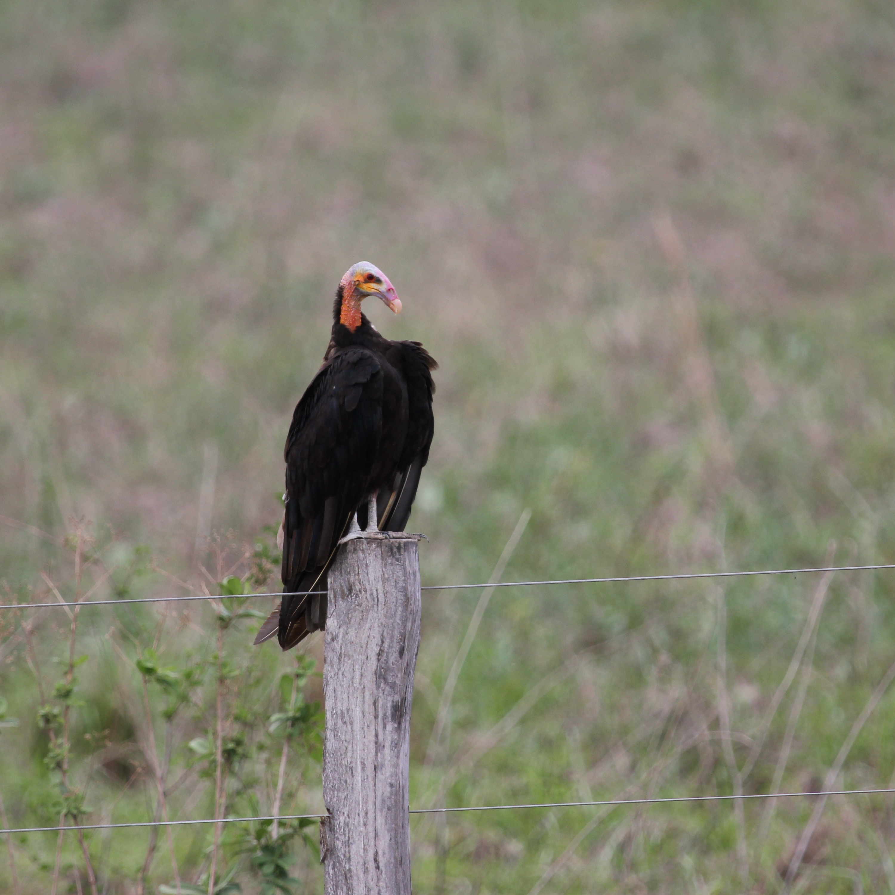 Lesser Yellow-headed Vulture (Cathartes burrovianus) in the Pantanal (Brazil), near the Transpantaneira